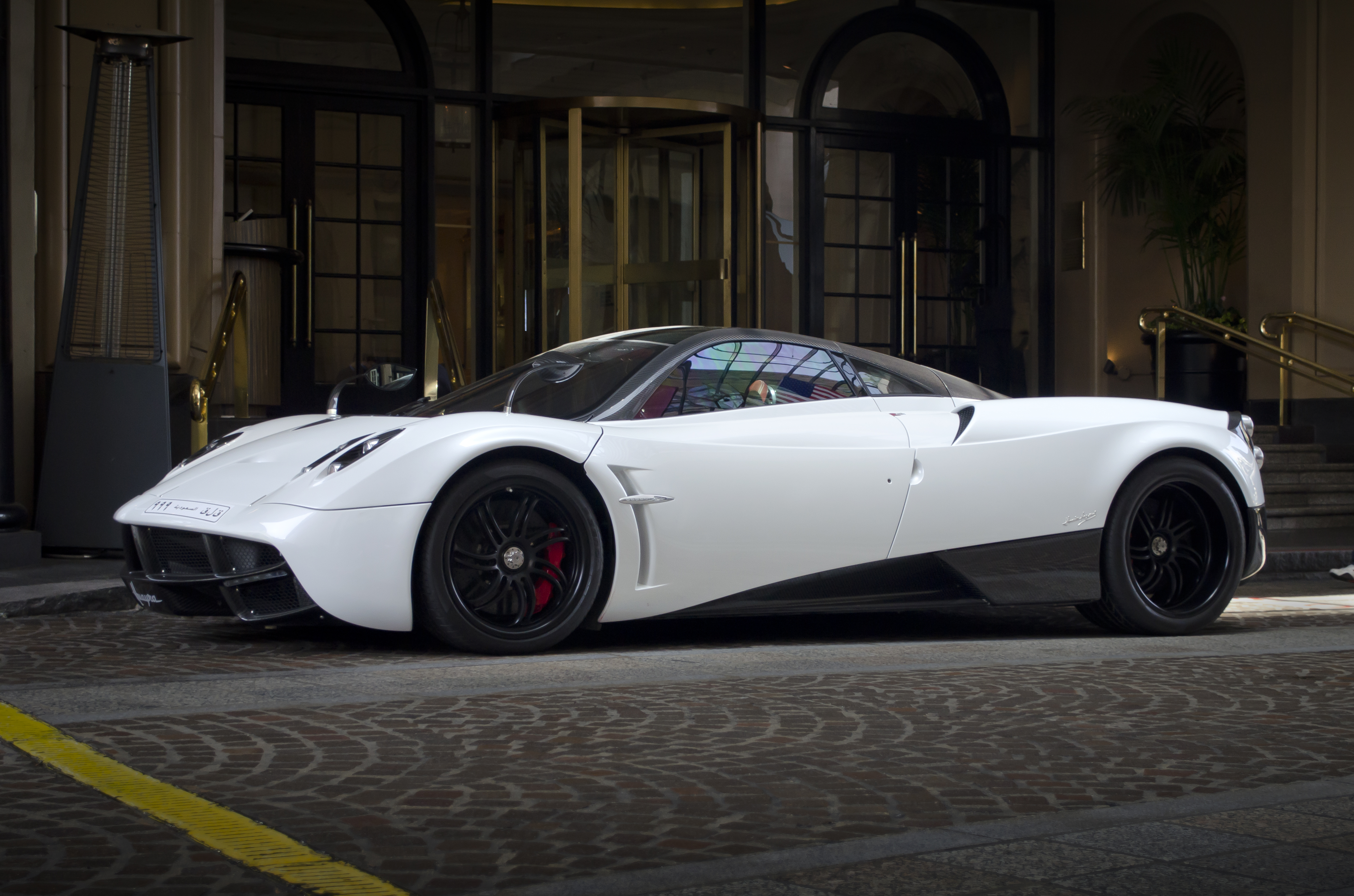 Pagani Huayra belonging to Saudi Arabian rally driver Yazeed Al-Rajhi. This beast was spotted at the Beverly Wilshire in Beverly Hills California. A bunch of contacts were posting photos of this so I had to go see if for myself!